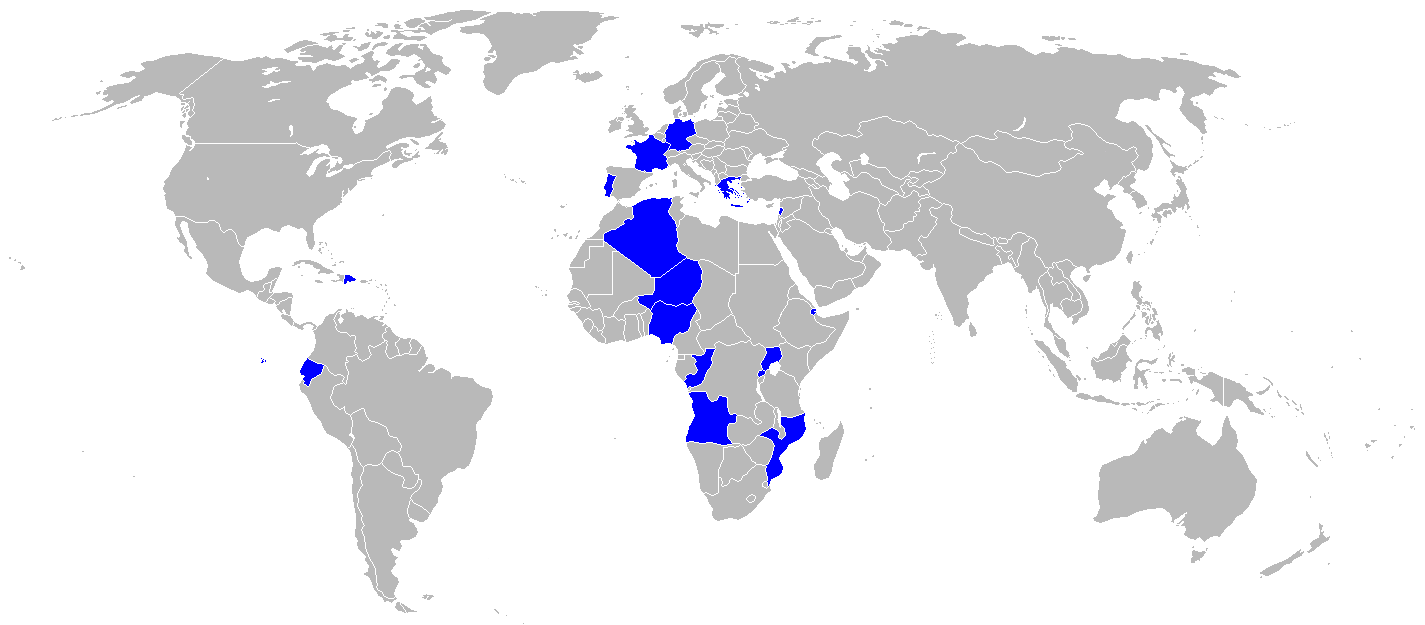 Map of the countries that used the Nord Noratlas